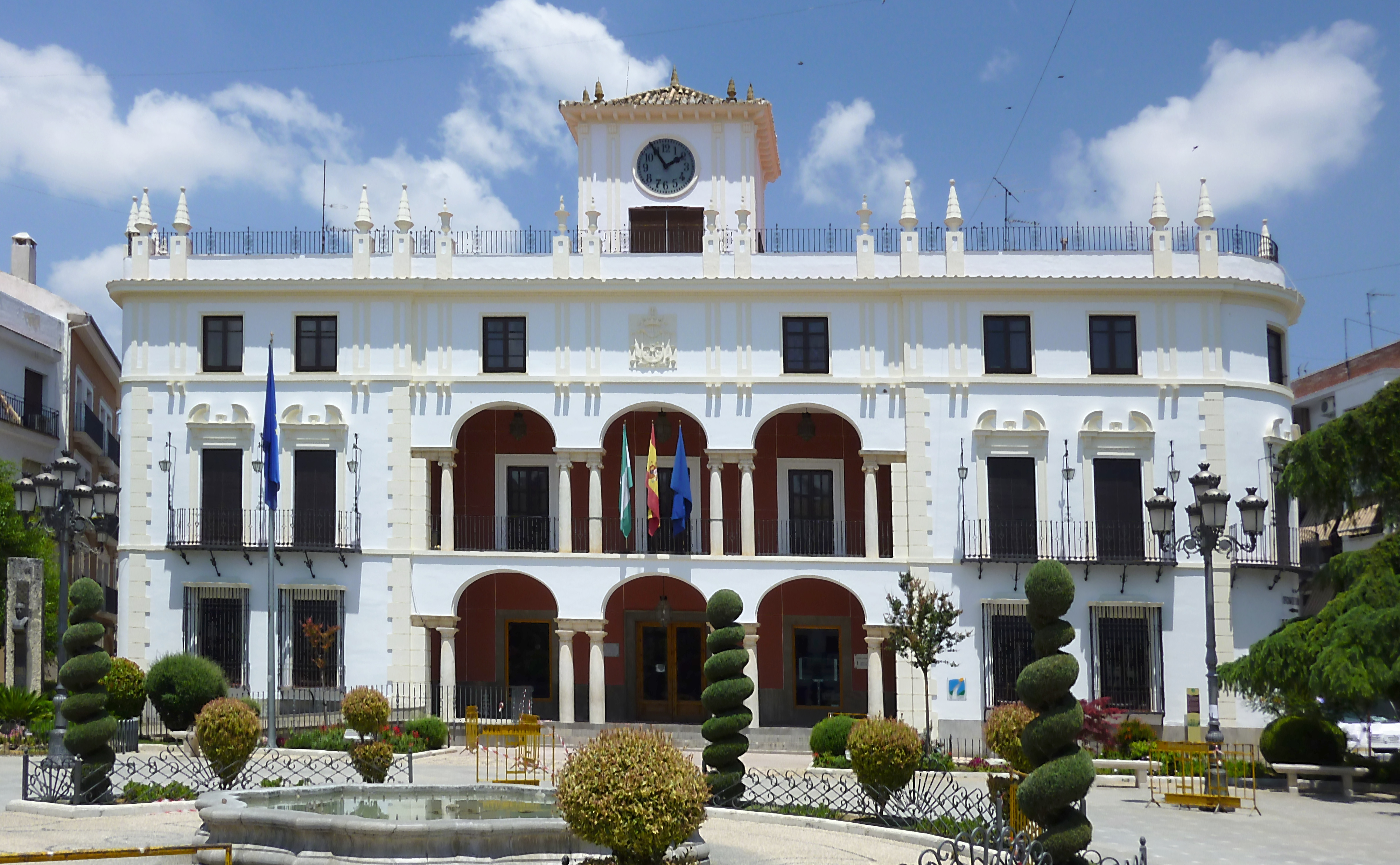 The town hall of Priego de Córdoba